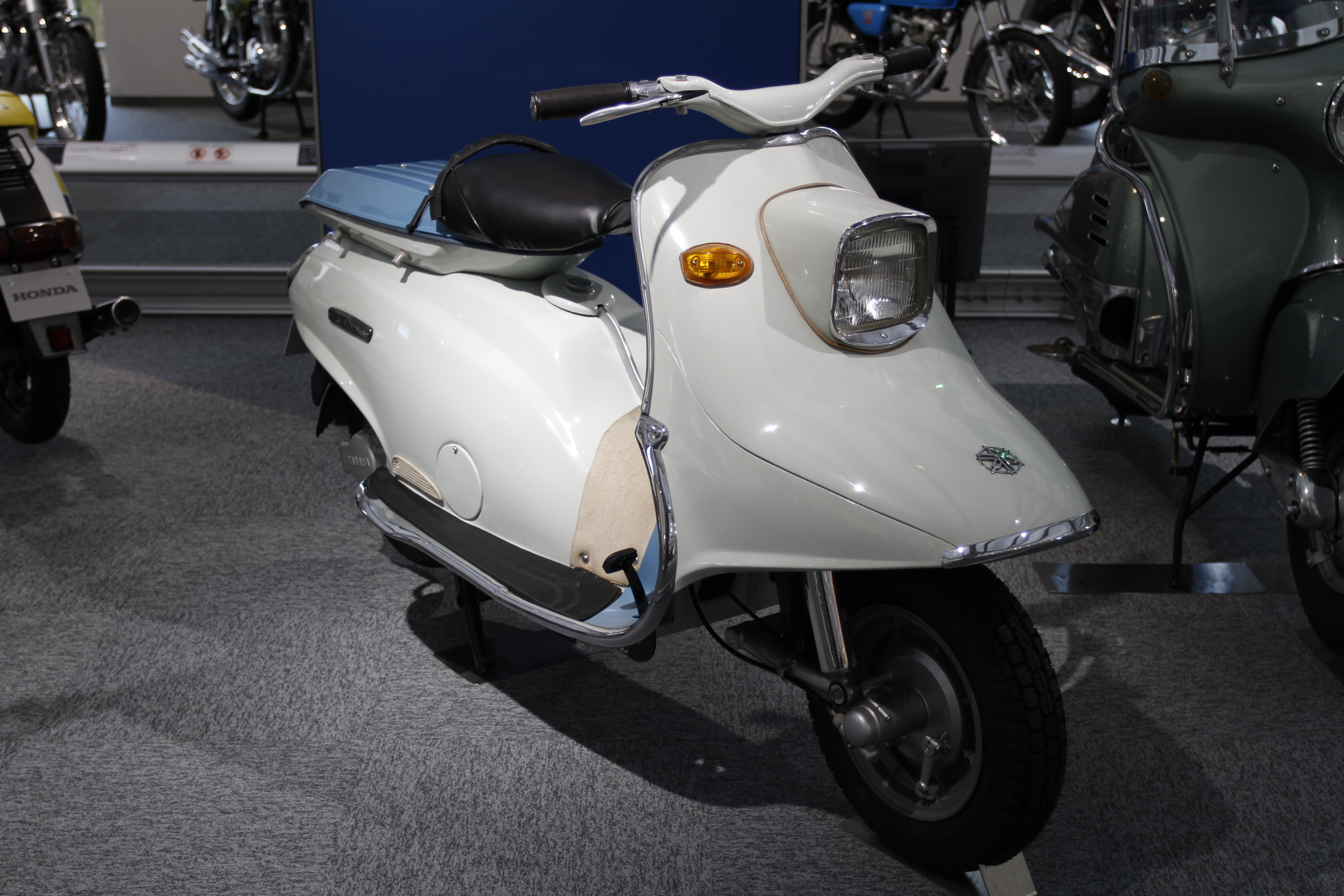 YAMAHA Scooter SC-1 photographed in Honda Collection Hall.